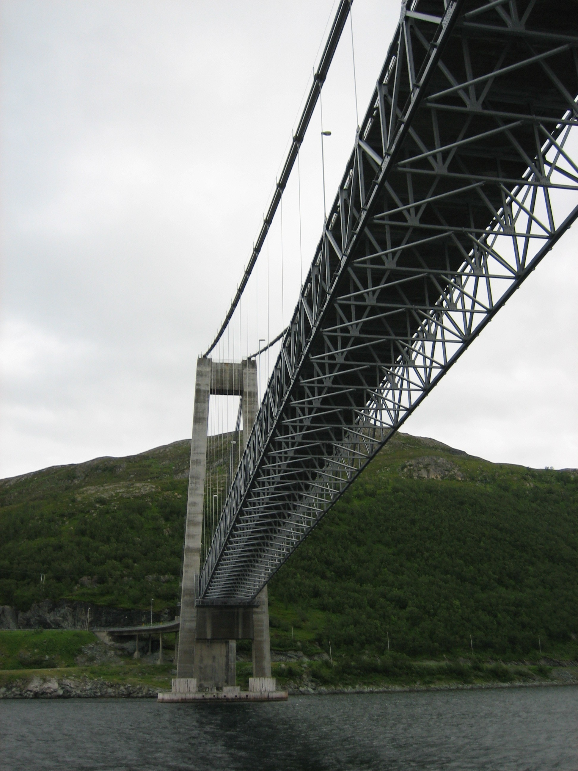 Kvalsund Bridge in Kvalsund, Finnmark, Norway.